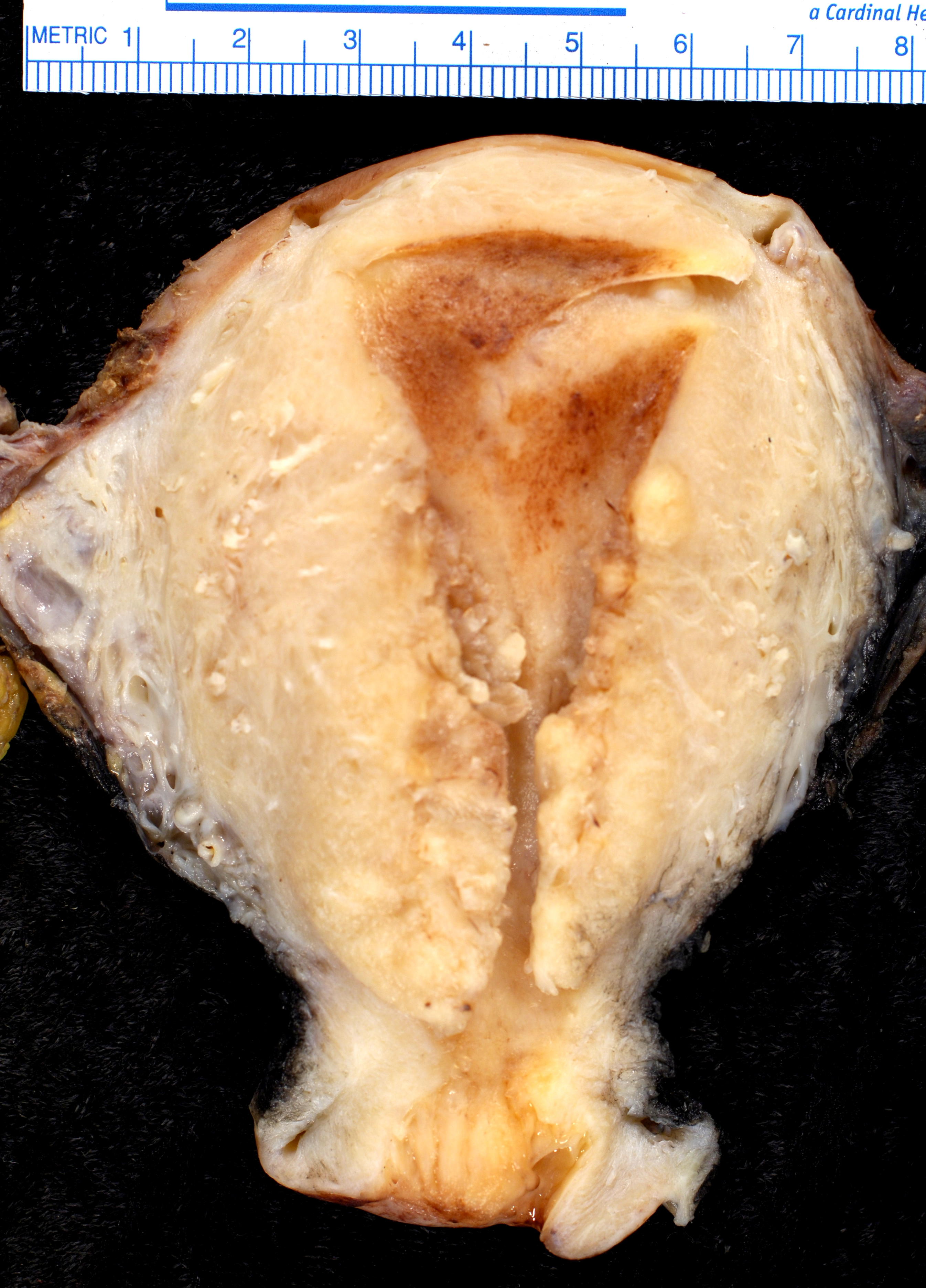 Endometrioid adenocarcinoma This is a FIGO grade III endometrioid adenocarcinoma that invades slightly more than half the thickness of the myometrium.